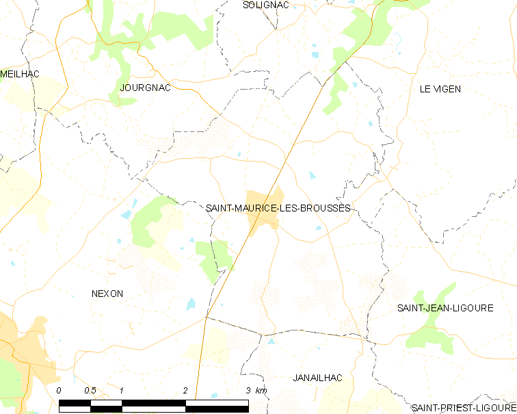 Map of French municipality Saint-Maurice-les-Brousses